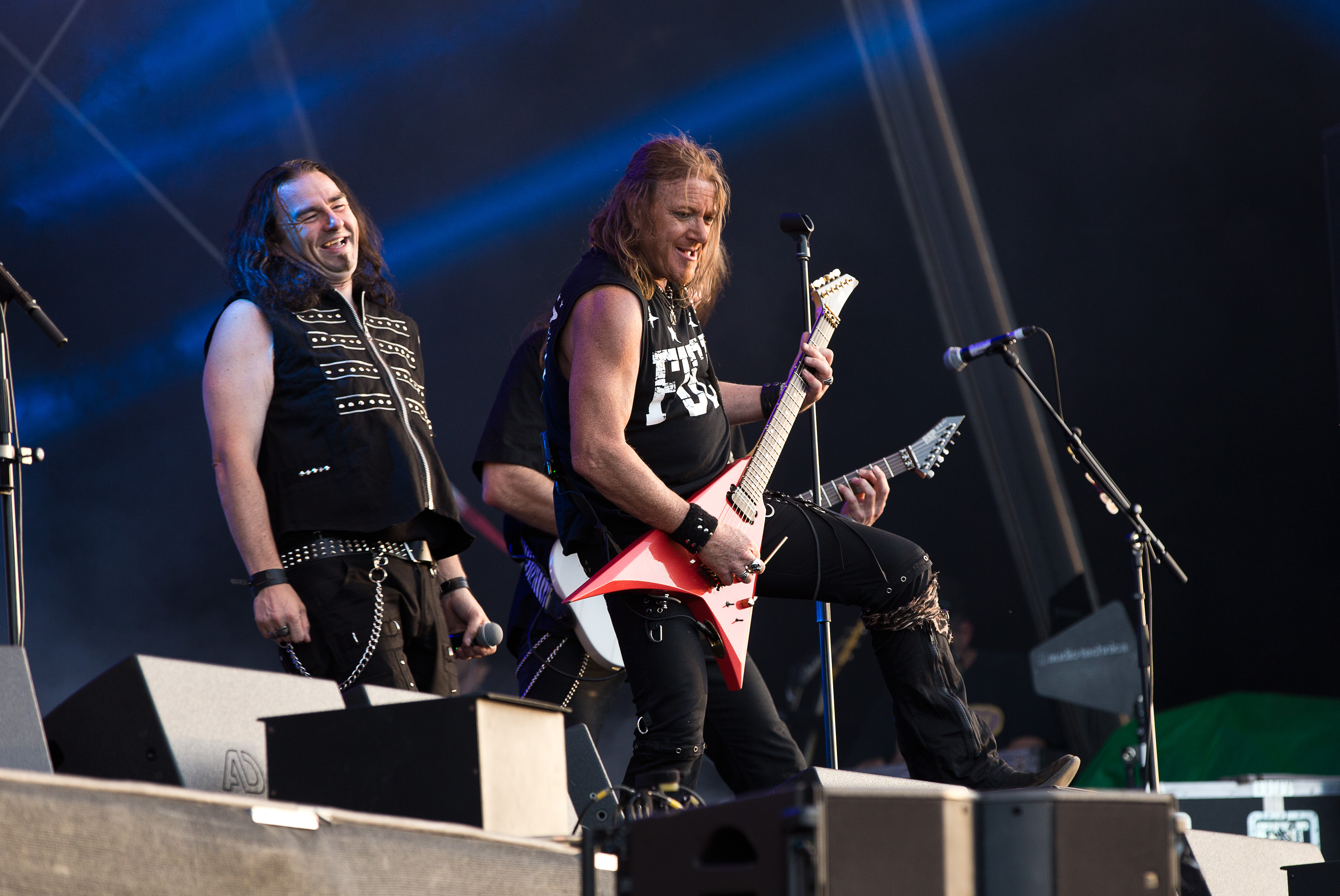 The German speed and power metal band Gamma Ray at the Rockharz Open Air 2016 in Ballenstedt/Germany.